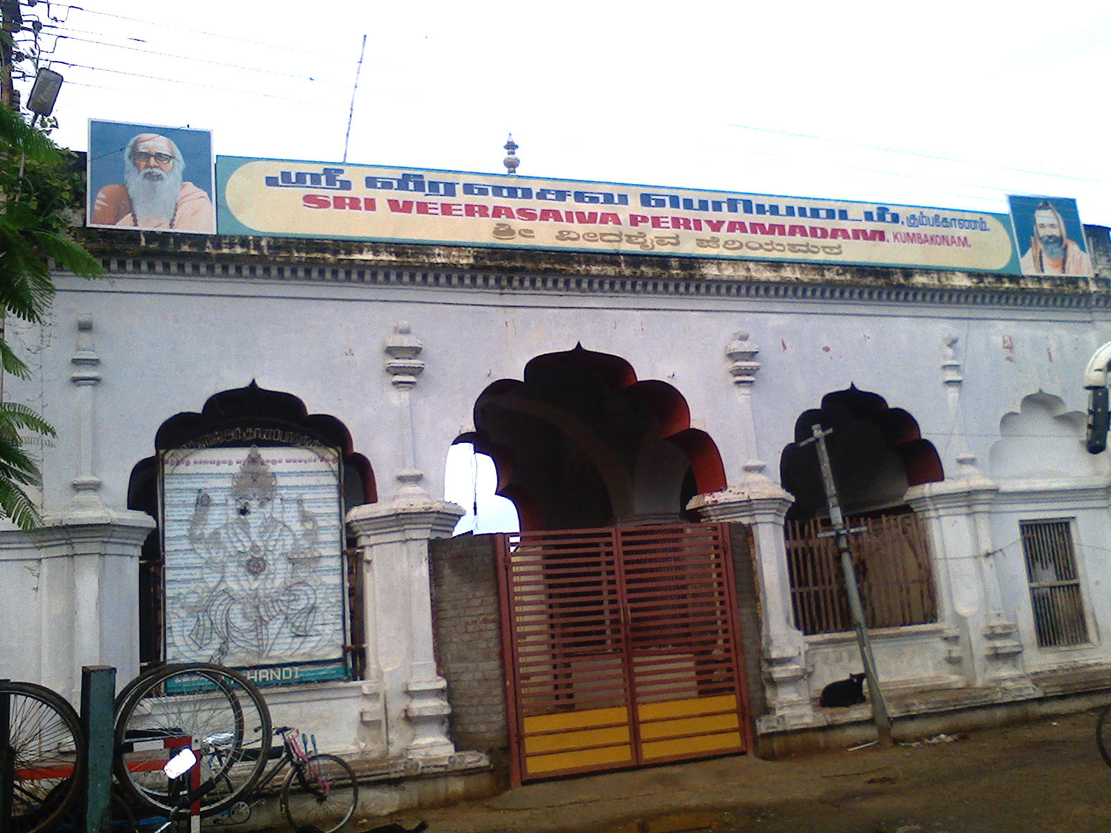 கும்பகோணம் வீரசைவமடம்